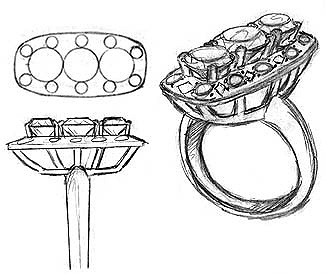 Rendering of Jewelry Design